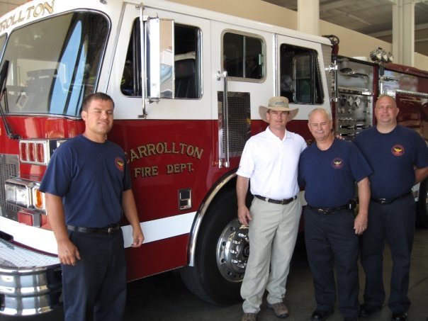 Austin Scott meets with firefighters in Carrollton, GA during the "Walk of Georgia"